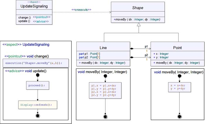 Aspect-Oriented Figure Editor in UML